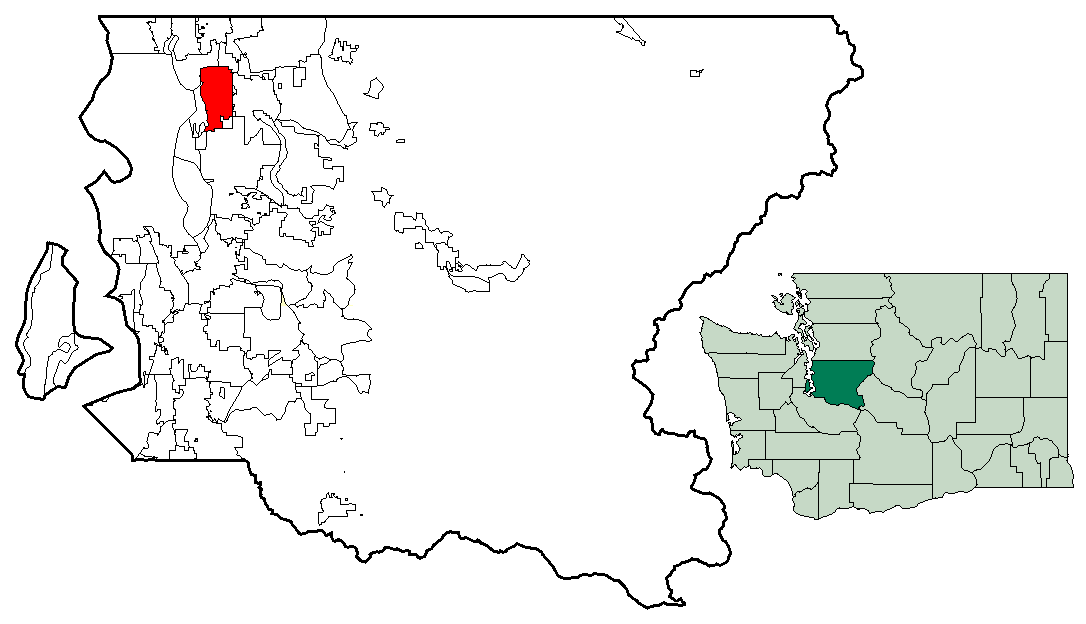 Map of Kirkland within King County, with county highlighted on Washington map. Created by Mad Max from United States Census Bureau maps.